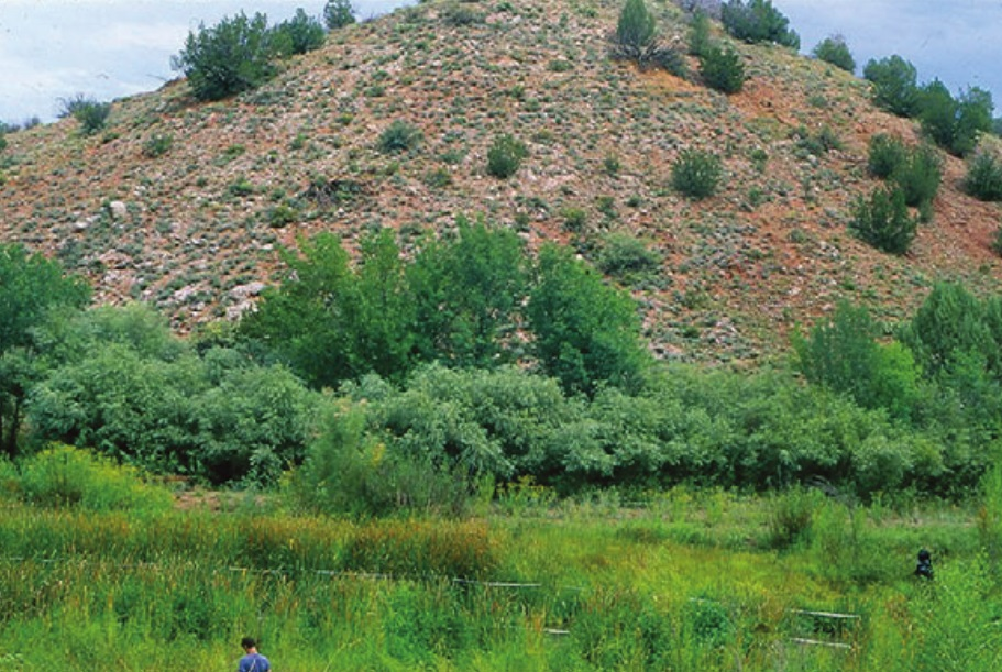 Salix gooddingii/Salix laevigata plant community on the Upper Verde River, Arizona, USA